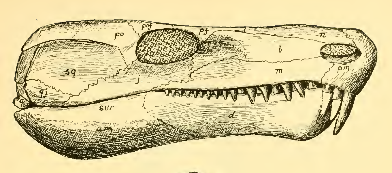 Cropped figure from The osteology of the reptiles